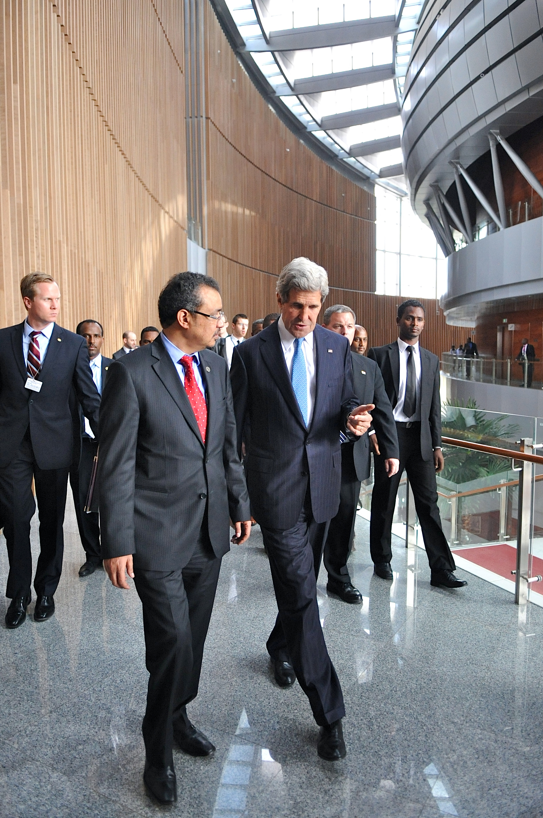 U.S. Secretary of State John Kerry walks with Ethiopian Foreign Minister Tedros Adhanom at the 50th anniversary African Union Summit in Addis Ababa, Ethiopia, on May 25, 2013. [State Department photo/ Public Domain]